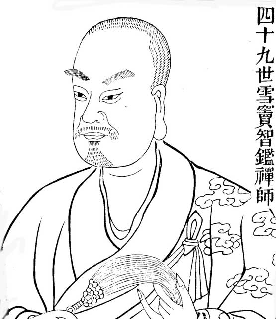 Image of Xuedou Zhijian, a 12th century Chinese Zen monk